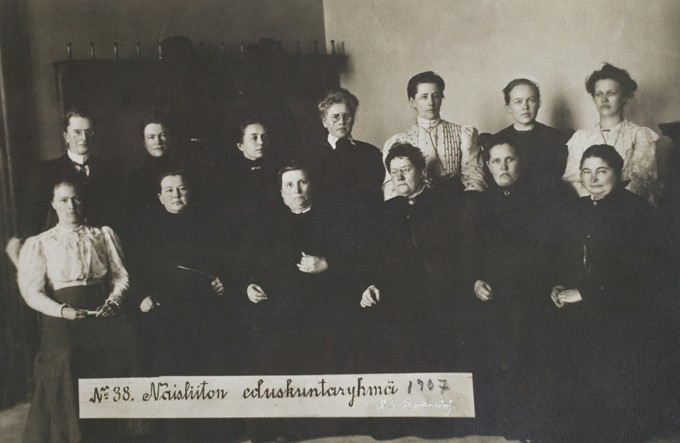 First Female Parliamentarians in the world were elected in Finland in 1907. Conservative parliamentarians wear black tops, while social democrats wear white.